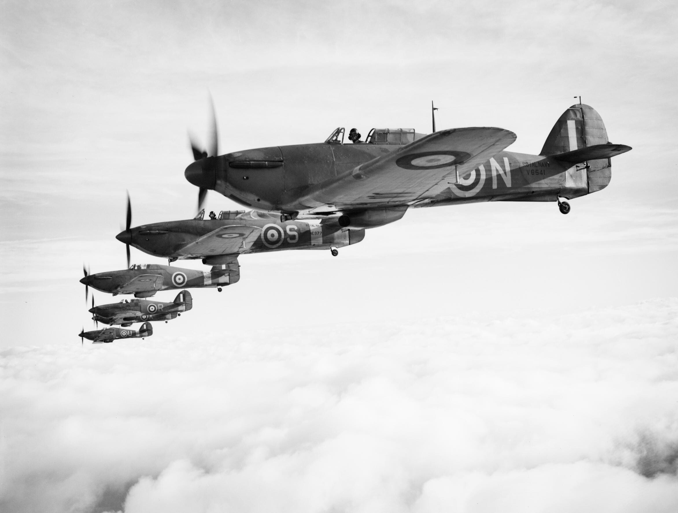 Hawker Sea Hurricanes of the Fleet Air Arm, based at RNAS Yeovilton, flying in formation, 9 December 1941. Six Fleet Air Arm Hawker Sea Hurricanes operating from Yeovilton, flying in formation.